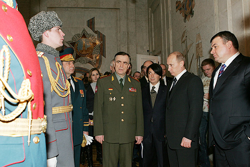 DEFENCE MINISTRY, MOSCOW. Inspecting models of the new Russian Armed Forces uniforms. With Defence Minister Anatoly Serdyukov (right), fashion designer Valentin Yudashkin, and Chief of Rear Services and Deputy Defence Minister Vladimir Isakov.